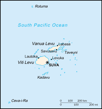 A map of the Fiji, showing island names and major towns.